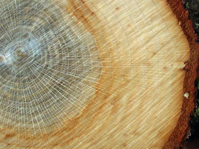 Oak